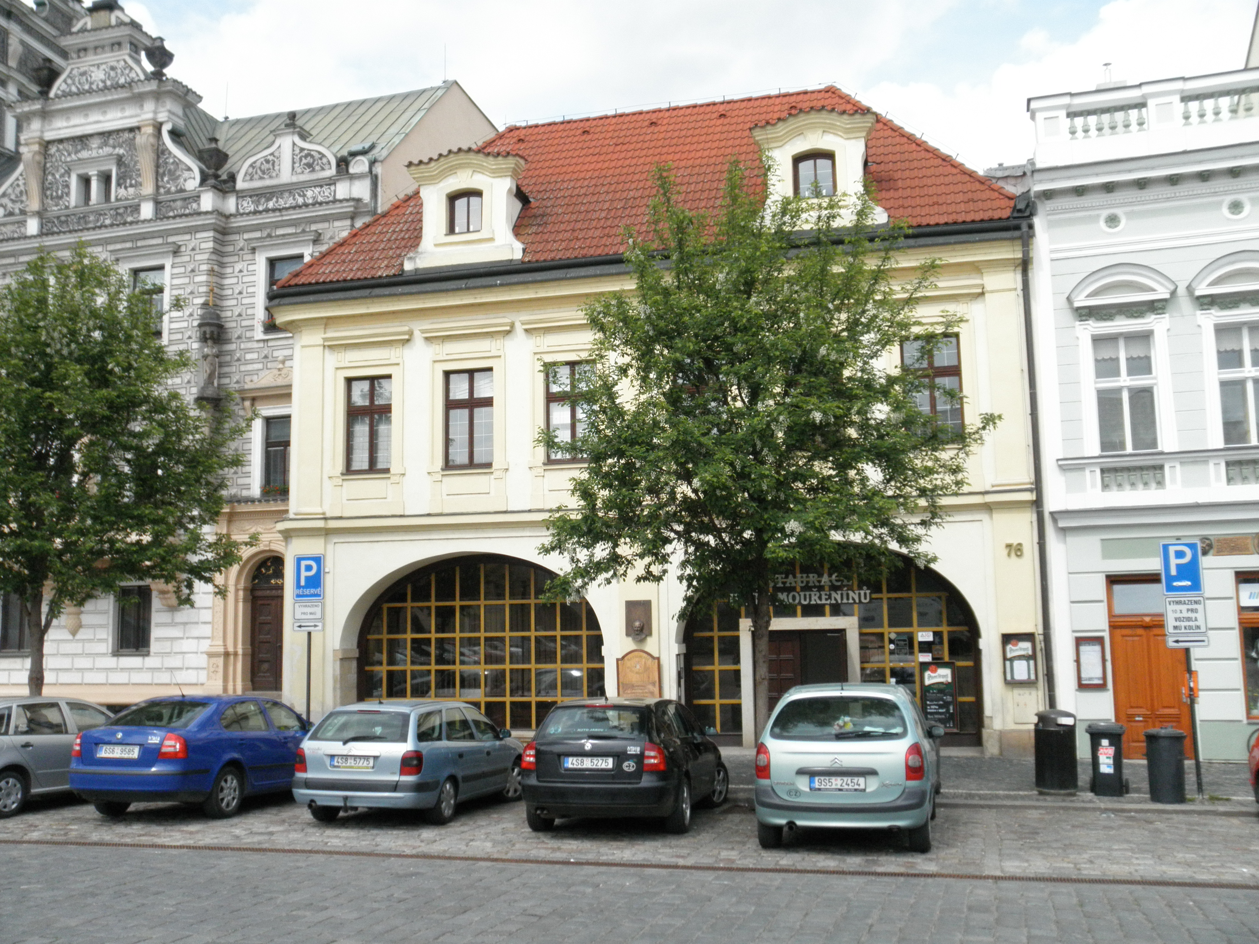 Birthplace of Vincenc Morstadt, 76 Karlovo náměstí square "U Tří mouřenínů" in Kolín (Czech Republic).